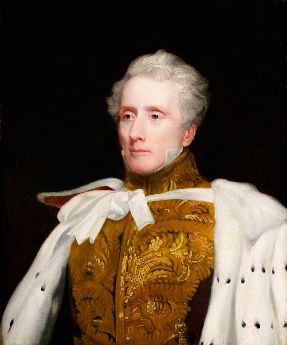 Photographic reproduction of a 1837 portrait of Charles Grant (1778-1866), 1st Baron Glenelg, by Henry Perronet Briggs. From Art UK.